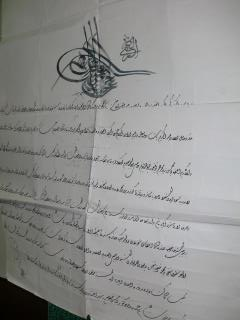 Drenok Church Berat